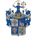 Coat of arms of Ágasegyháza, Hungary